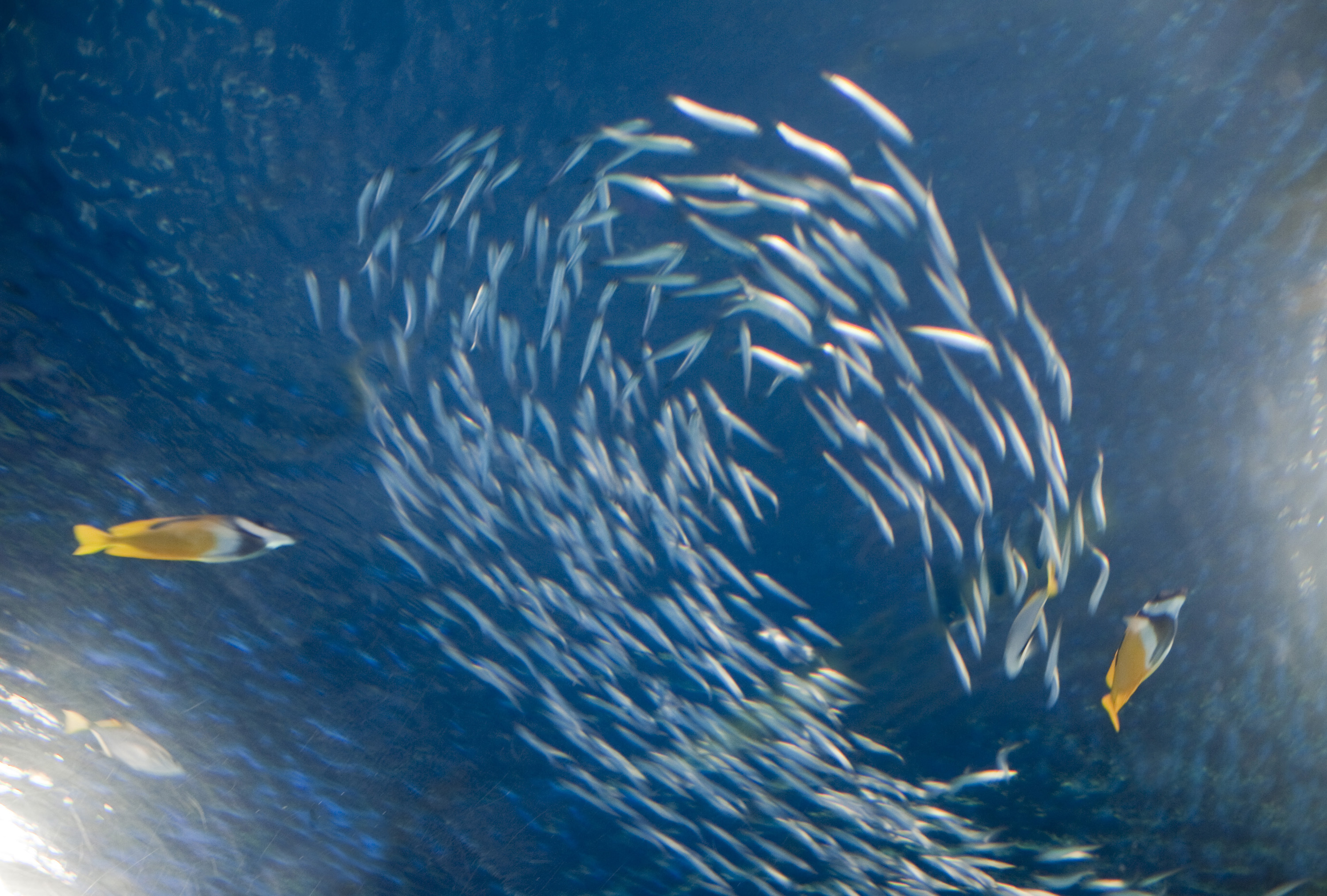 Prey fish schooling or shoaling forming a circular bait ball in a defensive move against predation flanked by two larger butterfly fish